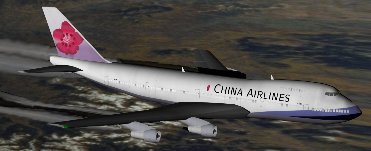 CG render of B-18255, the Boeing 747-200 aircraft used for China Airlines Flight 611